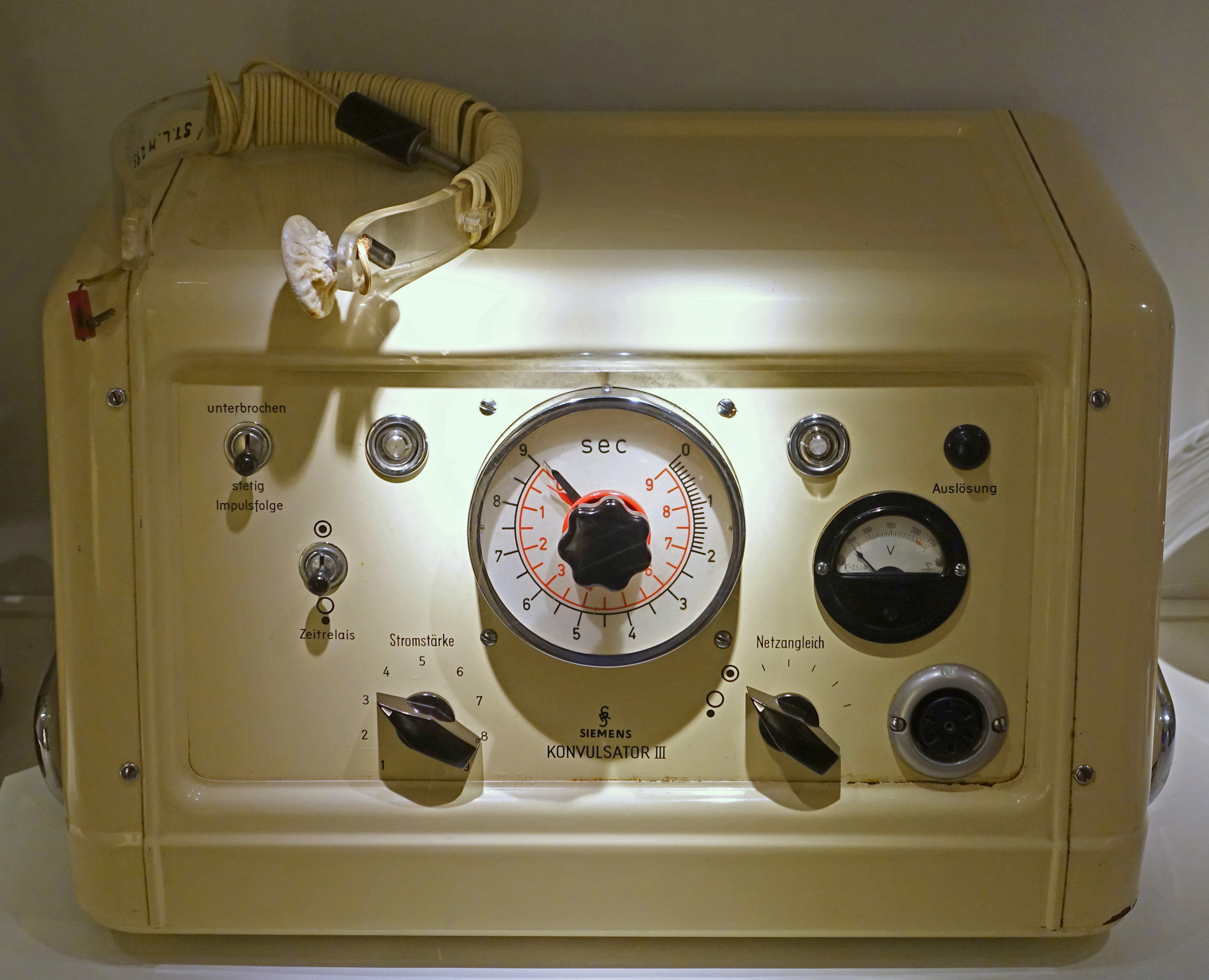 Exhibit in the Tekniska museet, Stockholm, Sweden. This work is old enough so that it is in the public domain.